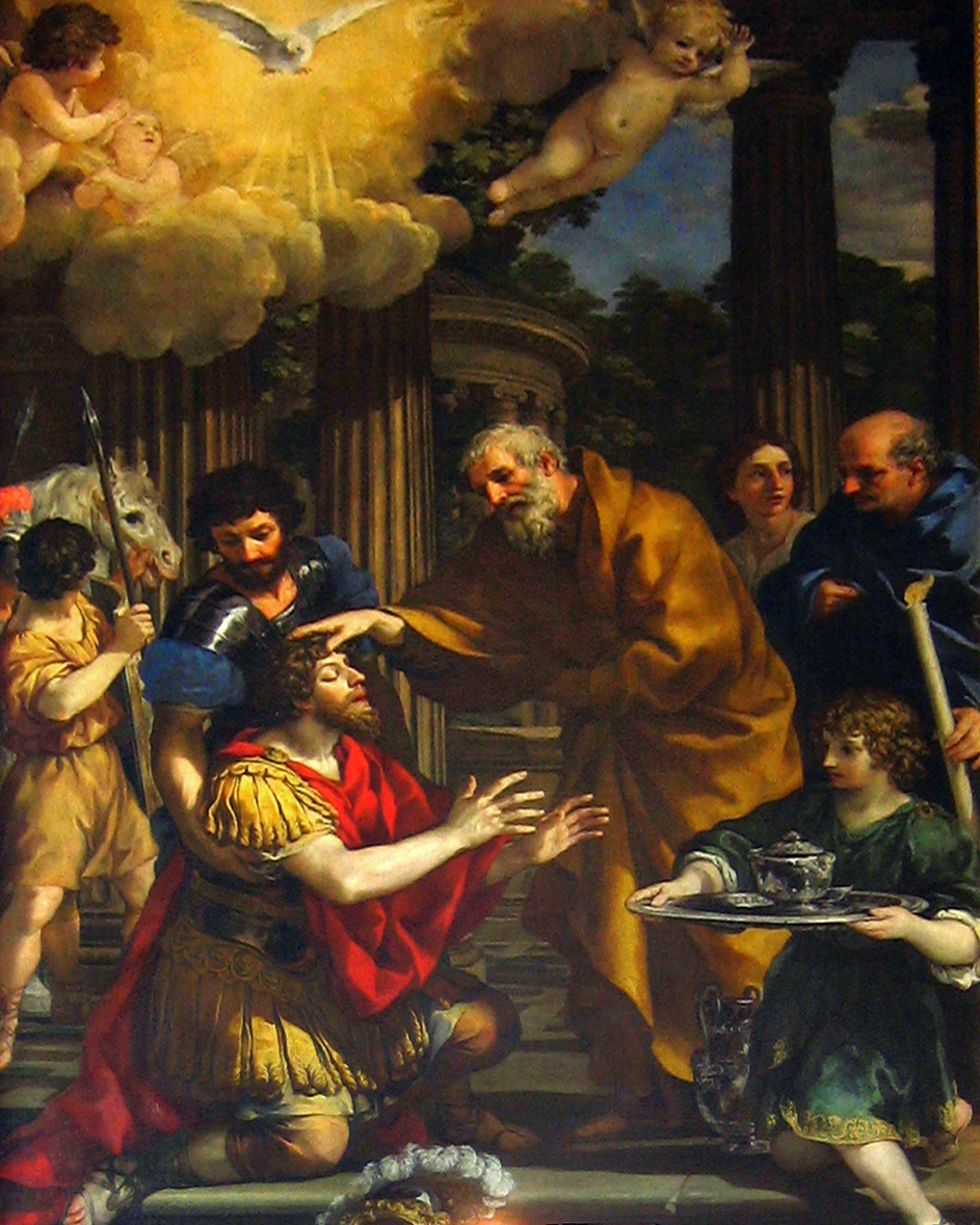 A splendid canvas (c.1631) by Pietro da Cortona in the Capuchin church of S. Maria della Concezione. I like the boy with the tea set to the right.